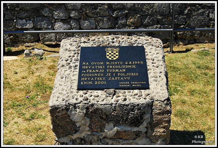 Memorial plaque in Knin fortress